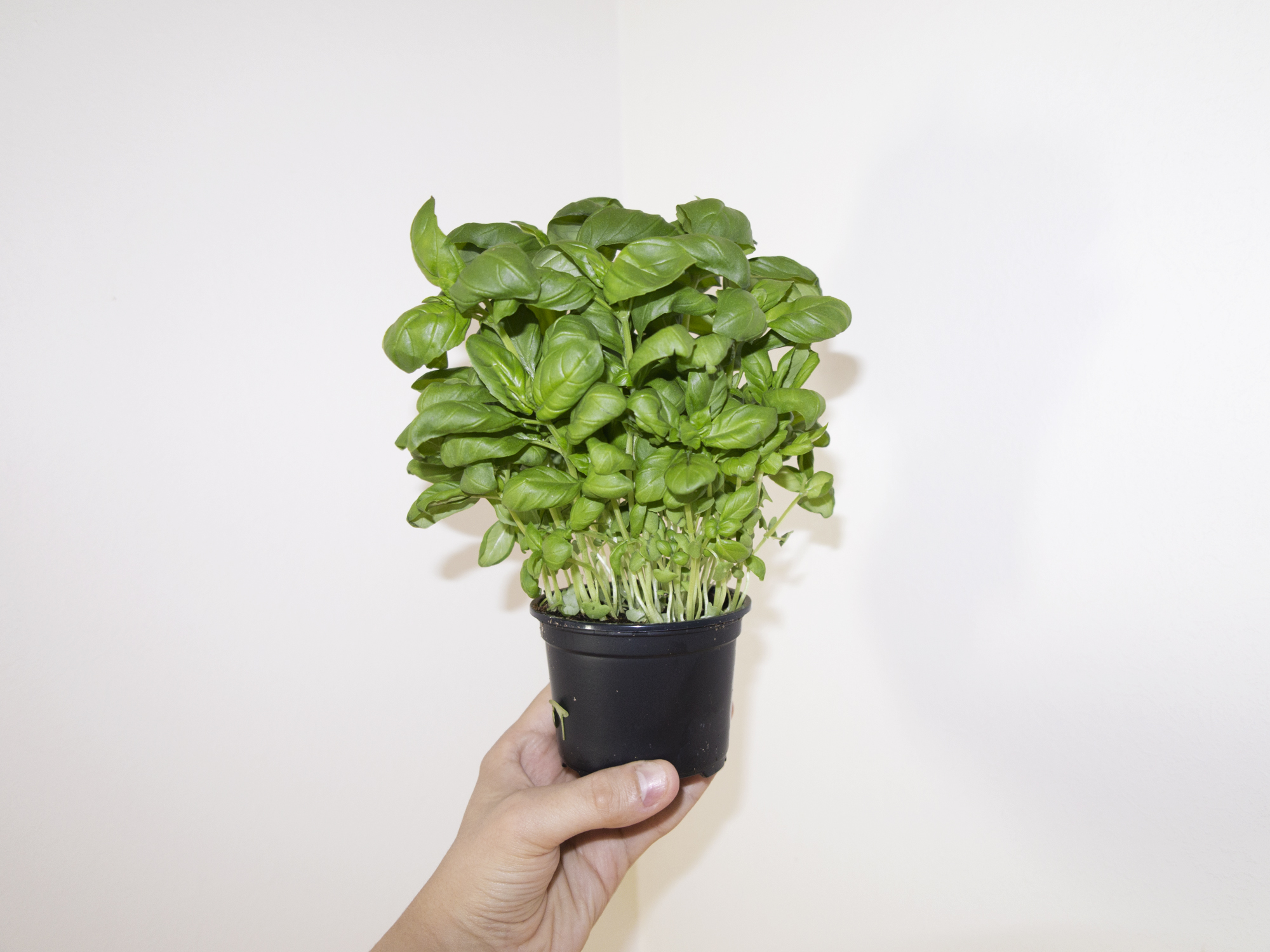 Abundant basil herb in a plastic pot.